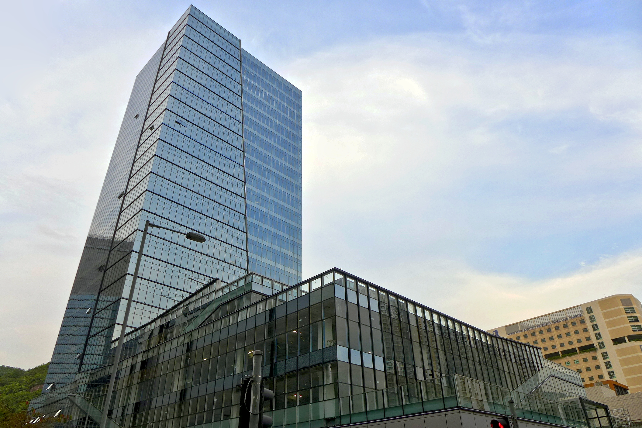 Shek Mun 1 On Kwan Street